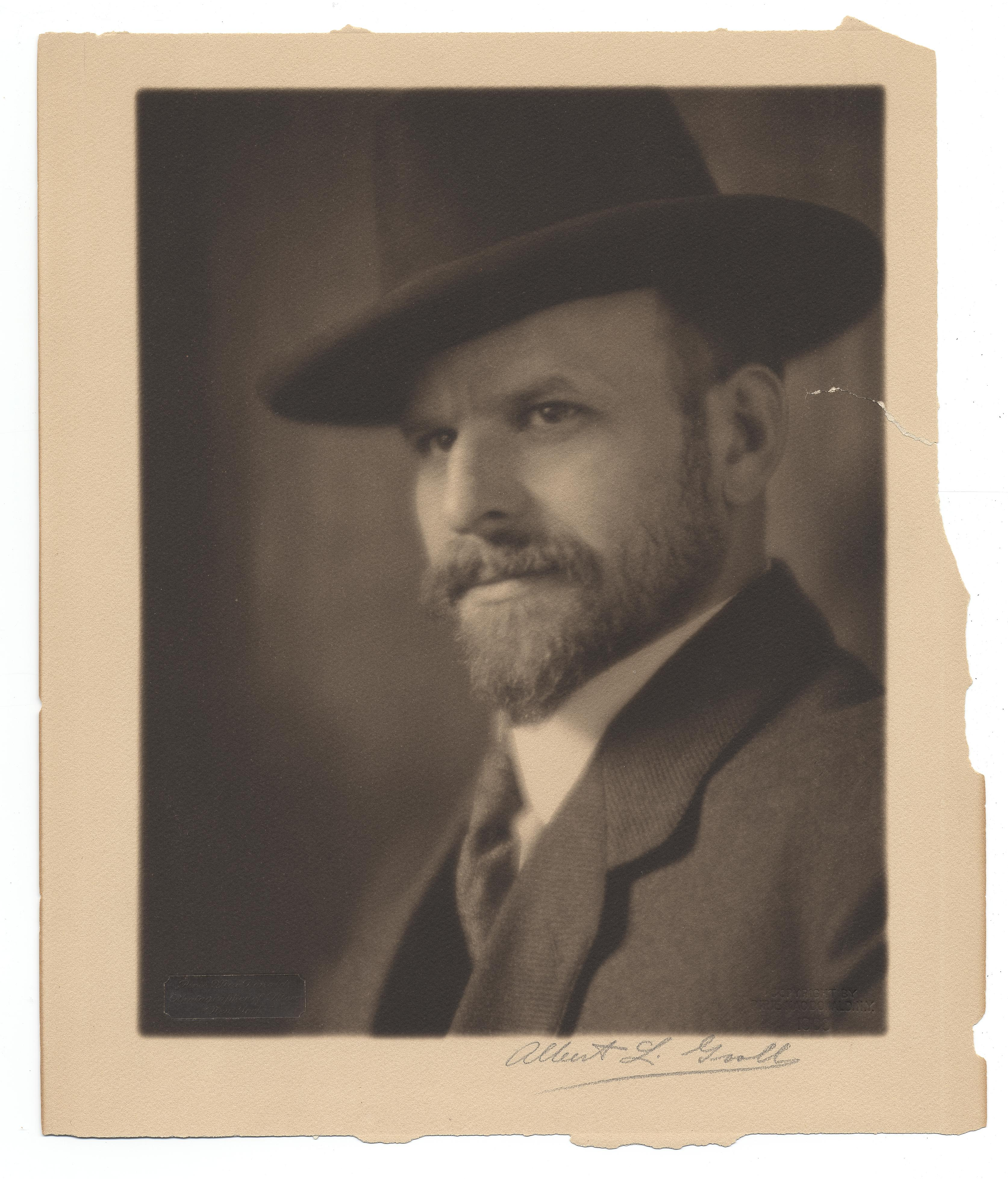 Albert Lorey Groll: Portrait of Groll wearing a hat. Inscription lower right: "Albert L. Groll". Groll, Albert Lorey, 1866-1952 Creator/Photographer: Pirie MacDonald (1867–1942) Alternative names Ian Pirie MacDonaldDescriptionAmerican photographerDate of birth/death 22 January 1867 22 April 1942Location of birth/death Chicago, Illinois New YorkWork period1883–1942Work location New York CityAuthority control : Q7197986 VIAF: 23324917 ISNI: 0000 0000 6686 3520 ULAN: 500049577 LCCN: no2005067111 Open Library: OL4994823A WorldCat creator QS:P170,Q7197986 Birth Date: 1867 Death Date: 1942 Medium: Black and white photographic print Dimensions: 20 cm x 16 cm Date: 1906 Persistent URL: Repository: Archives of American Art Native nameArchives of American ArtParent institutionSmithsonian InstitutionLocationWashington, D.C.Coordinates38° 53′ 52.44″ N, 77° 01′ 21.72″ W Established1954Web page control : Q2860568 VIAF: 151134814 ISNI: 0000 0001 2185 0758 LCCN: n79065944 NLA: 35007823 GND: 1023549-8 WorldCat institution QS:P195,Q2860568 Collection: Macbeth Gallery Records, c. 1890-1964 Accession number: aaa_macbgall_4705